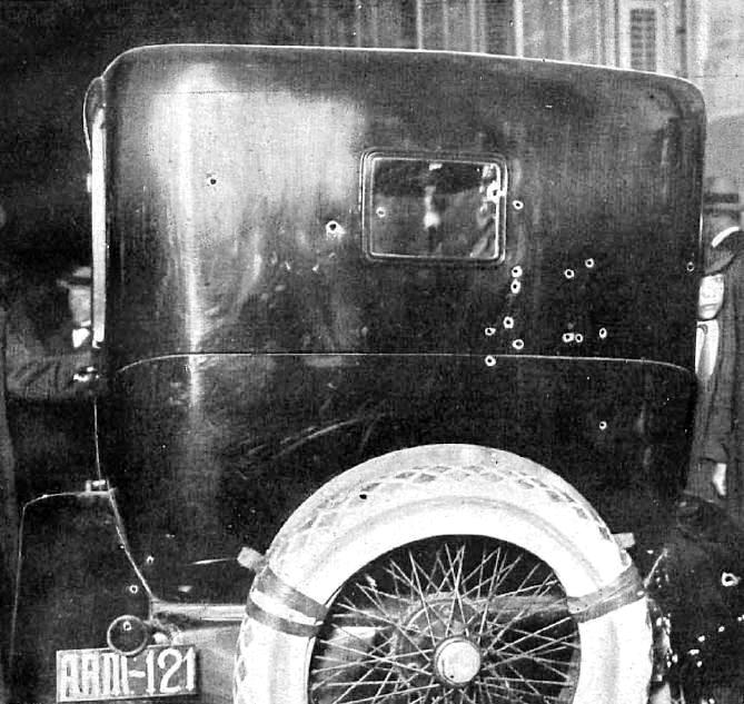 Car of Spanish politician Eduardo Dato after his assassination.